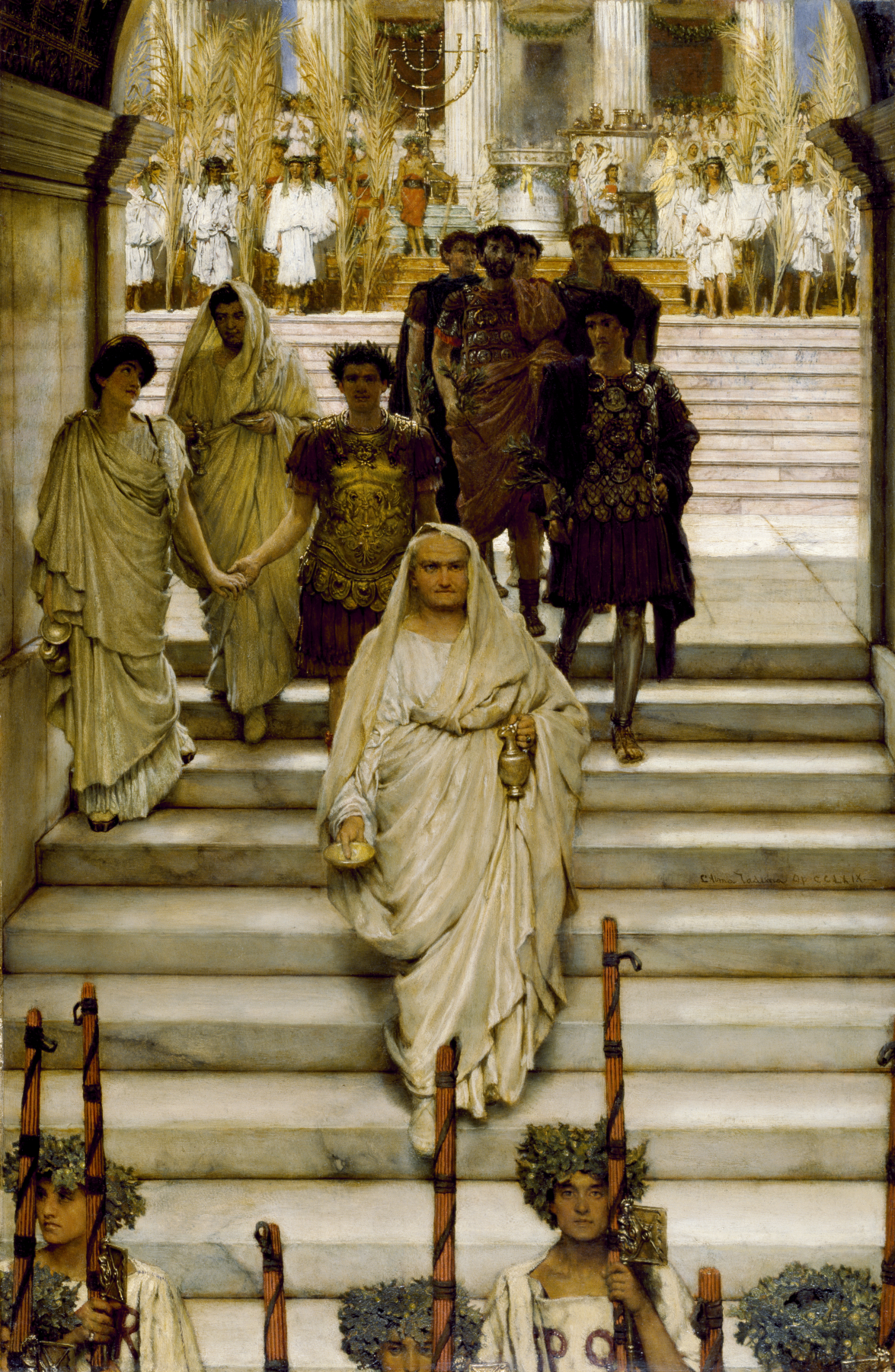 In this canvas, the artist shows Titus returning to Rome in triumph following his capture of Jerusalem in AD 70. His father, Emperor Vespasian, clad in a white toga, leads the procession. Titus comes next, holding the hand of his daughter, Julia, who turns to address her father's younger brother and successor, Domitian. In the background is the Temple of Jupiter Victor. Among the spoils from Jerusalem is a 7-branched candlestick from the temple. Alma-Tadema depicted these events by drawing on classical sources, like the reliefs on of the Arch of Titus and on the latest 19th-century scholarship regarding everyday life in Rome.